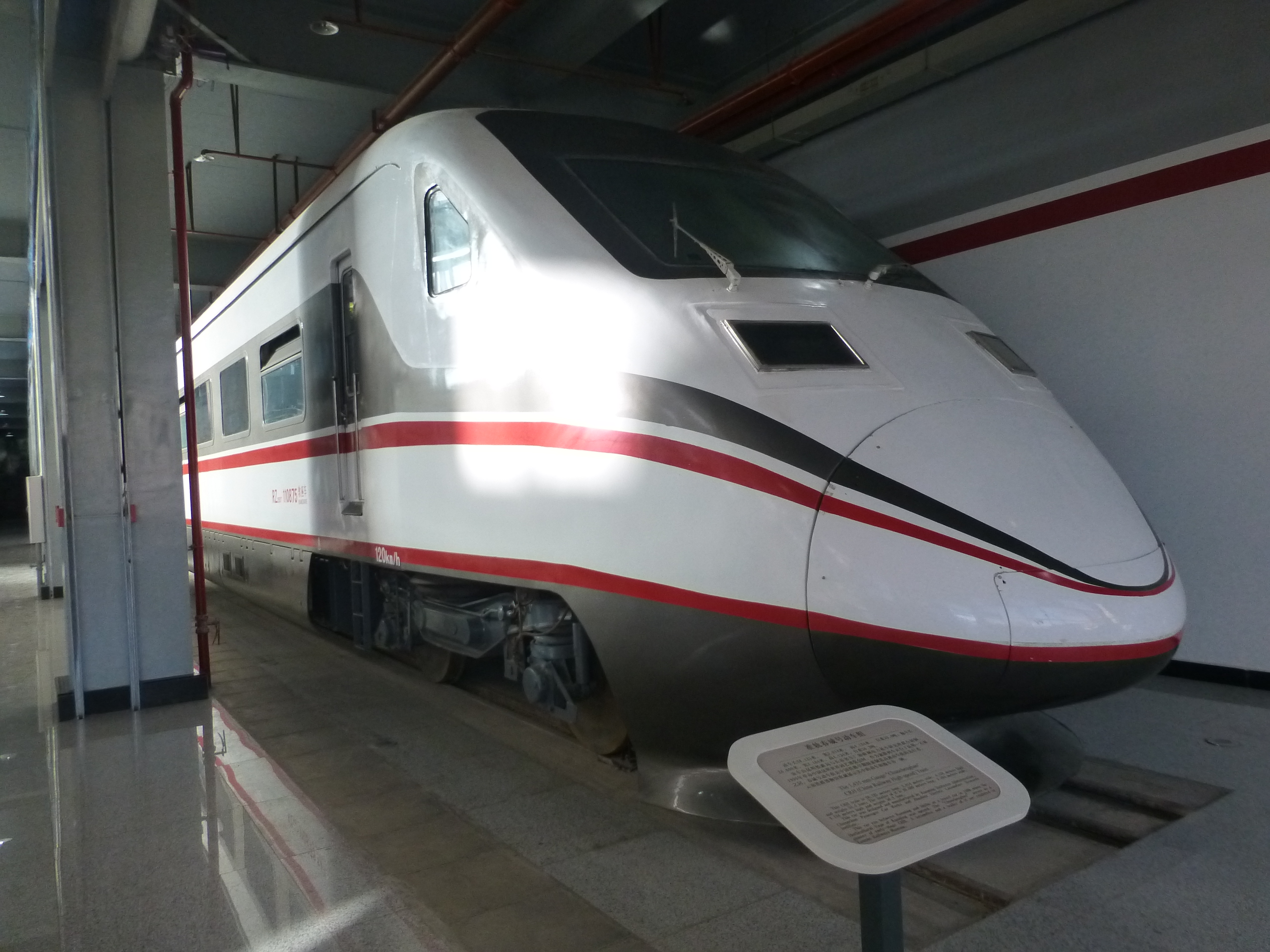 Rolling stock on display in the Yunnan Railway Museum (Kunming North Railway Station)